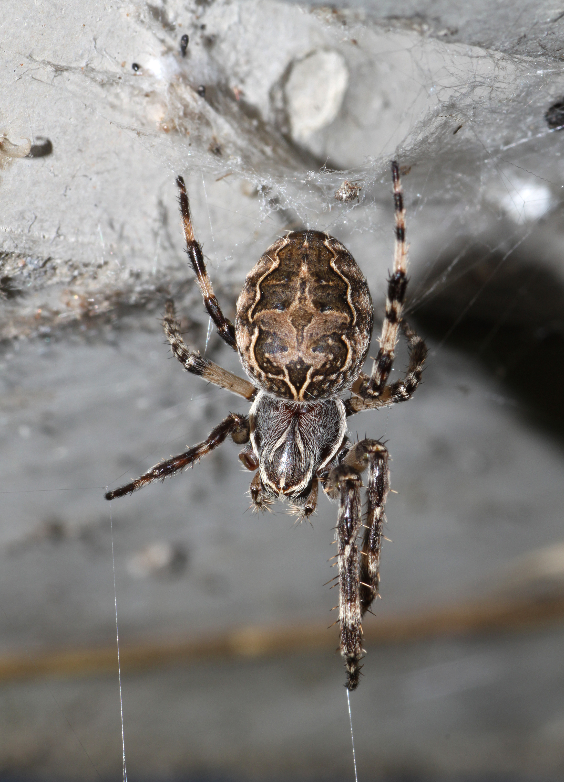 Bridge Spider or Gray Cross Spider Larinioides sclopetarius, Family: Araneidae, Location: Germany, Erbach, Donaurieden